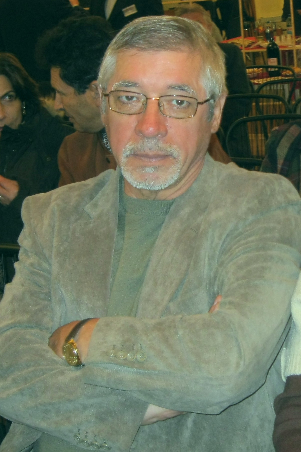 Leo Butnaru